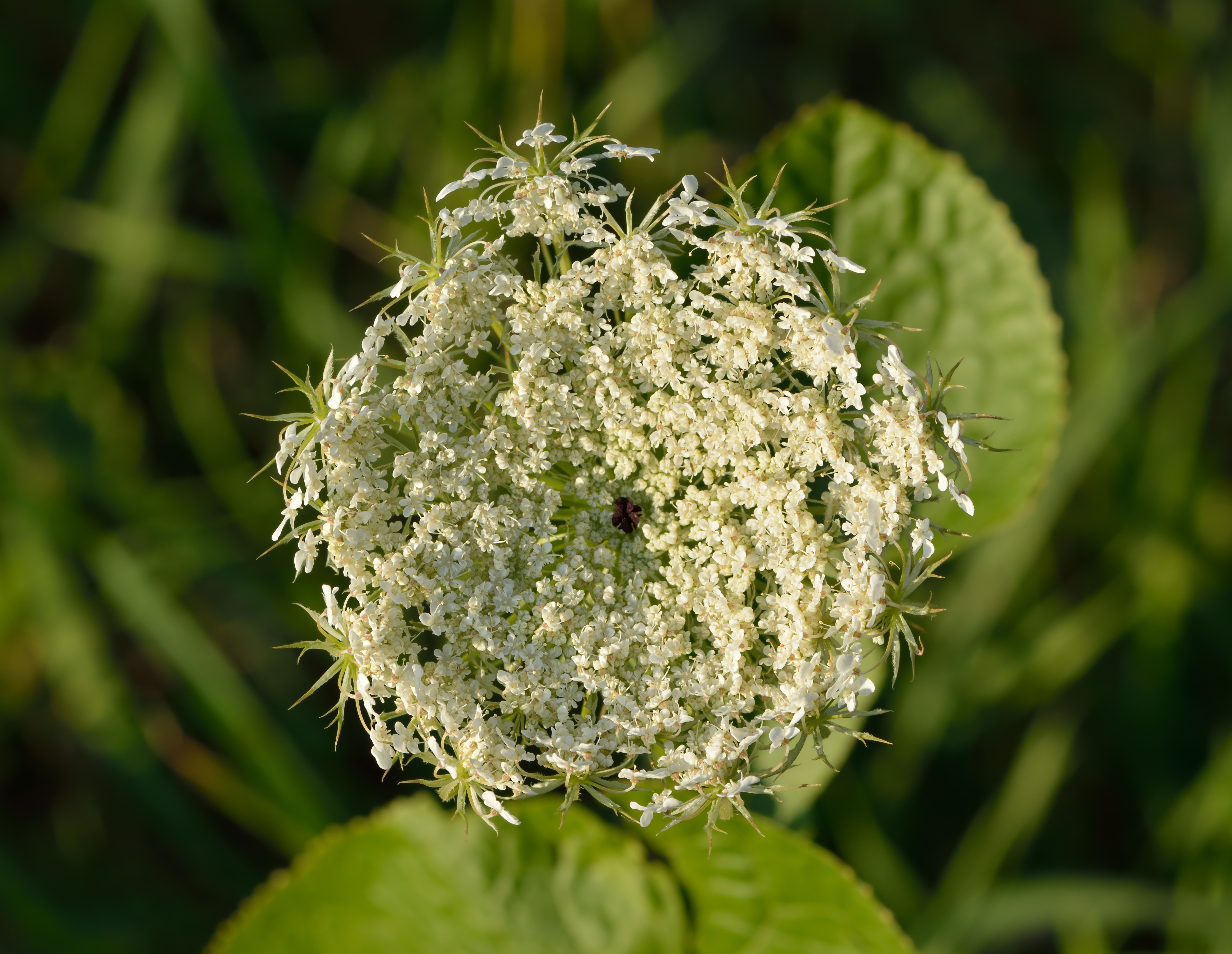 Wild carrot (Daucus carota). Keila, Northwestern Estonia.